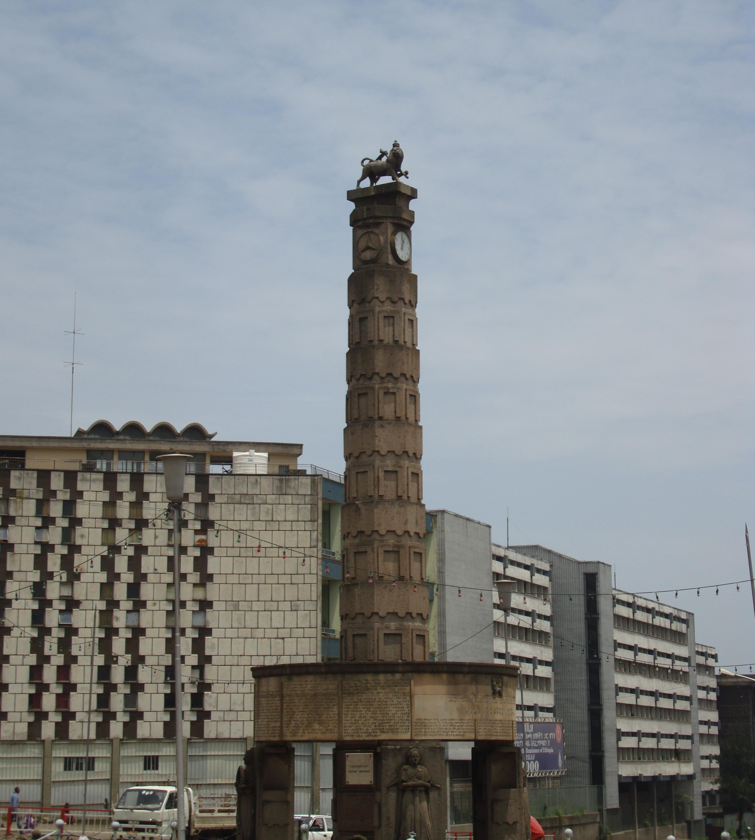 Arat kilo monument Addis Abeba